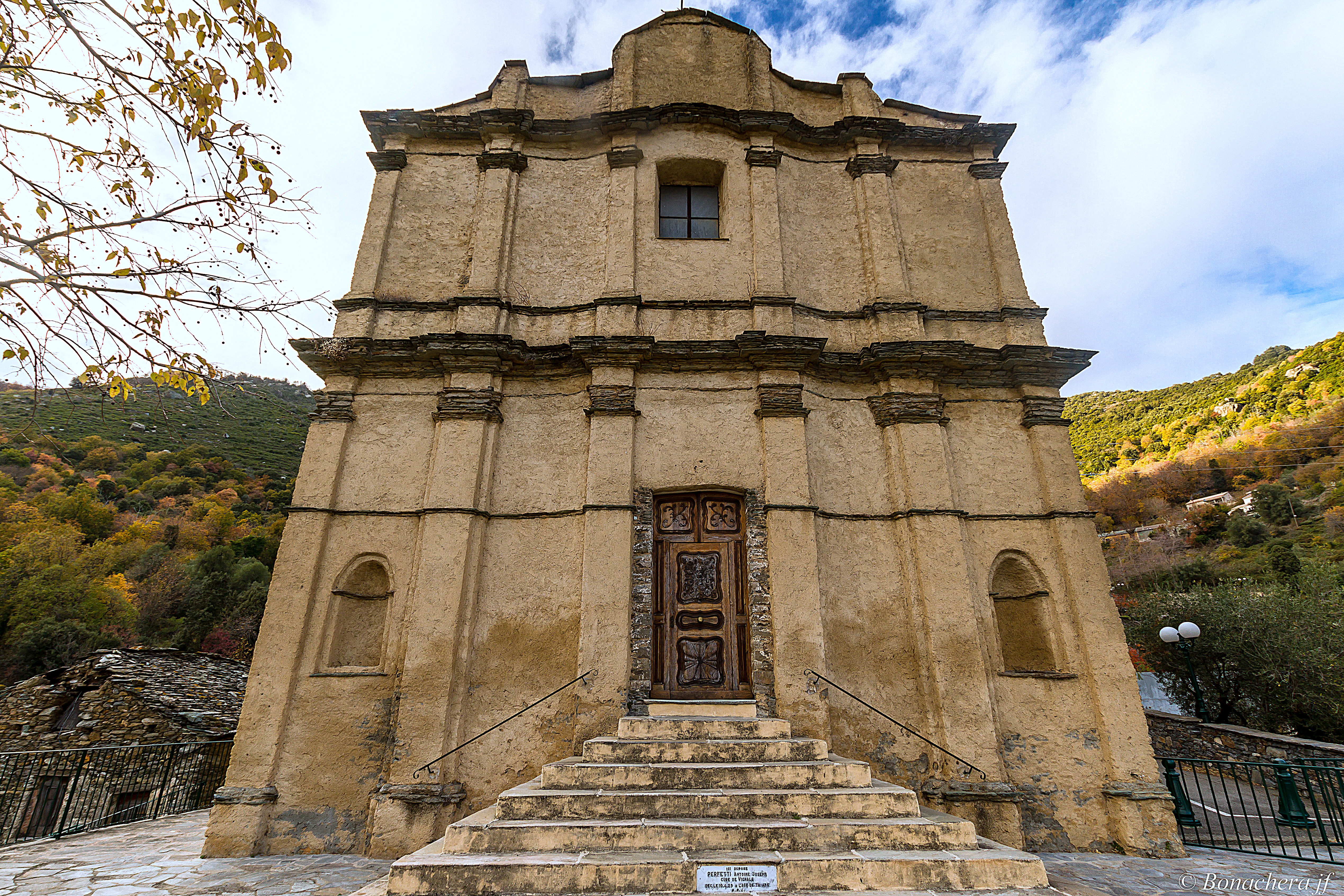 Vignale: l'Église Saint-Luxor